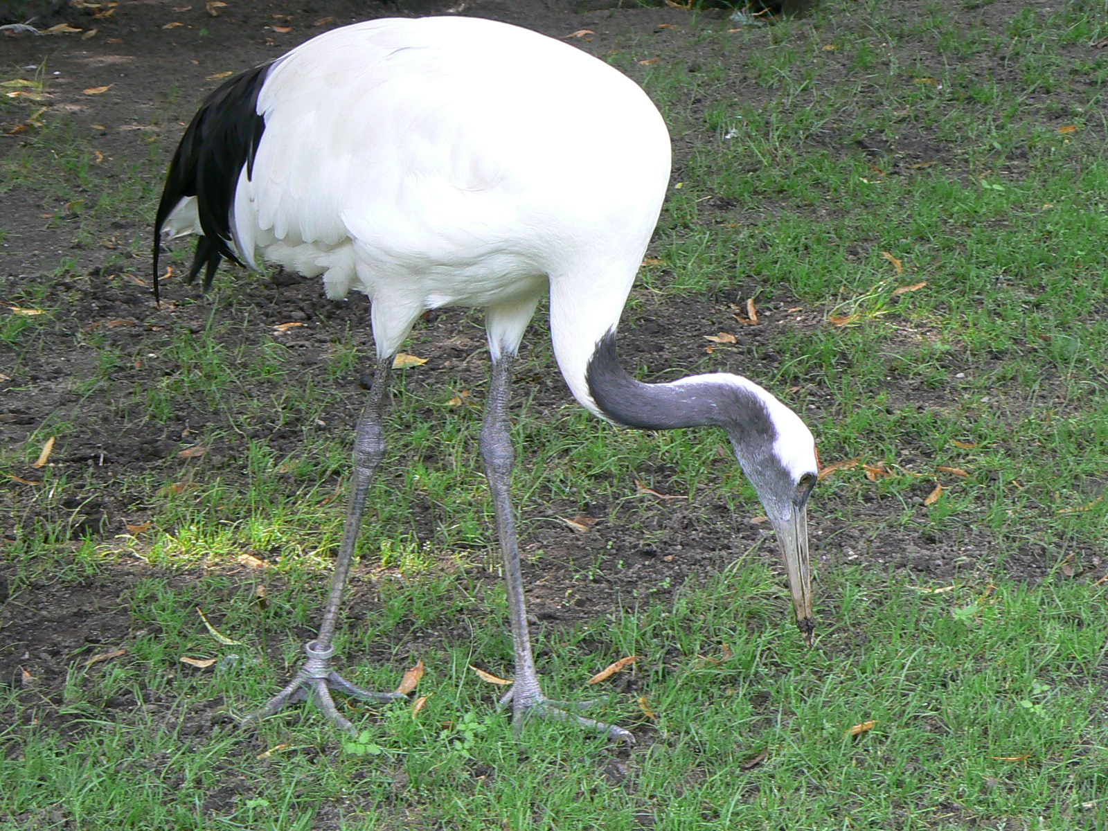 Machurian crane / red crowned crane/ grus japonesis/ Manchurenkranich